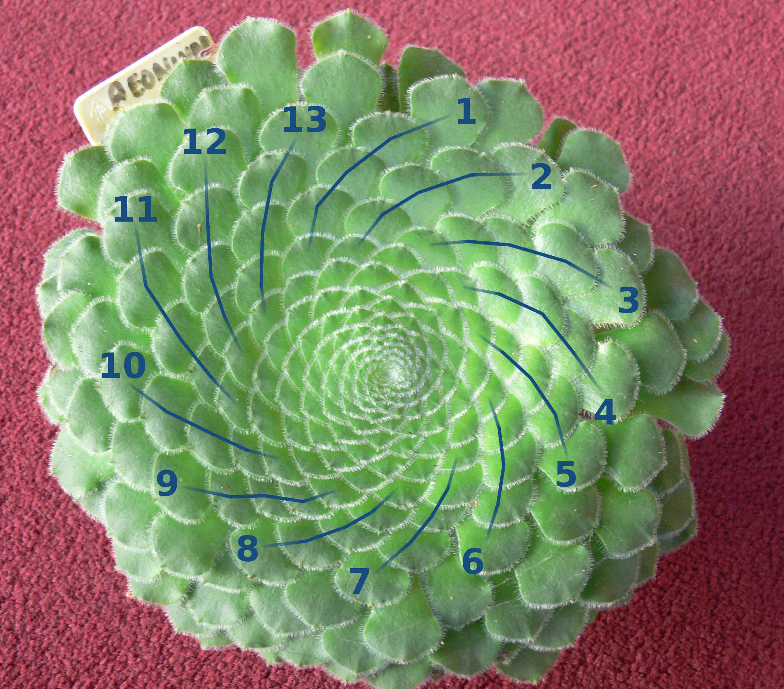 Aeonium Tabuliforme with 13 spirals